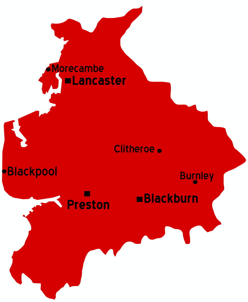 Map of Lancashire Source: :Image:UK map.svg map: England Map of: England